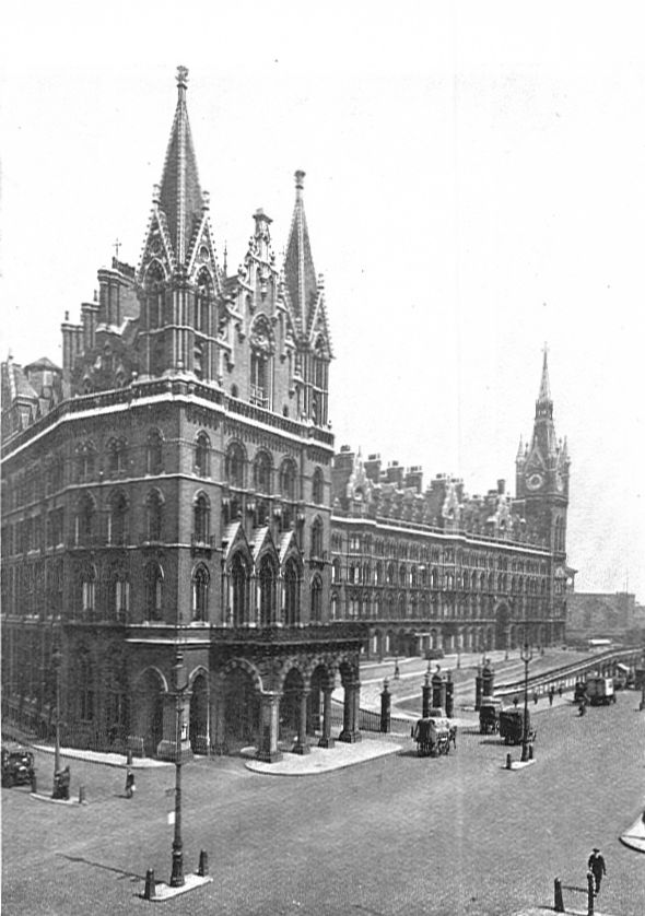 St. Pancras Station, L.M.S.R., London Photo: L.M.S.Ry.